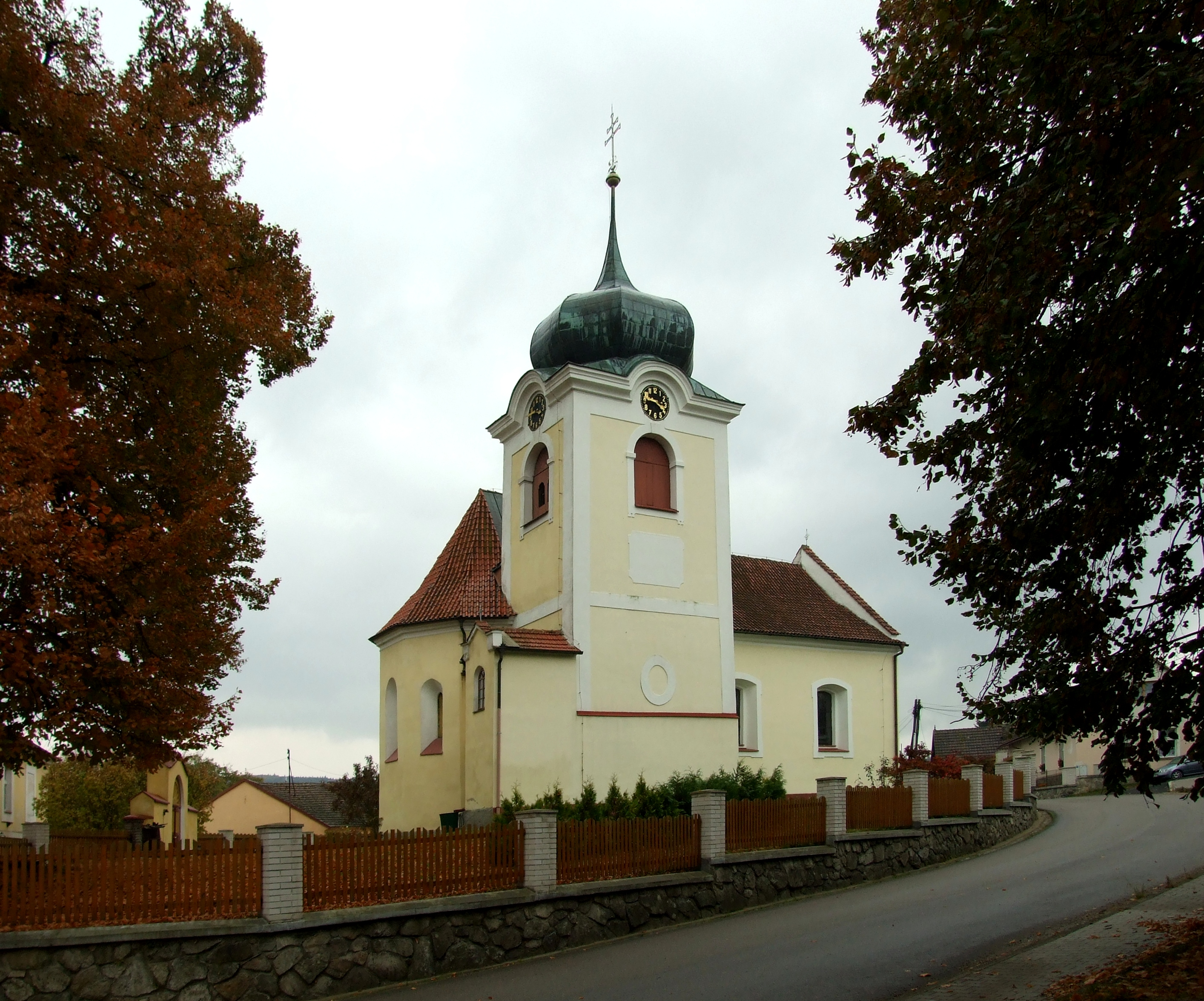 A church in the village of Postupice, Benešov District, CZ